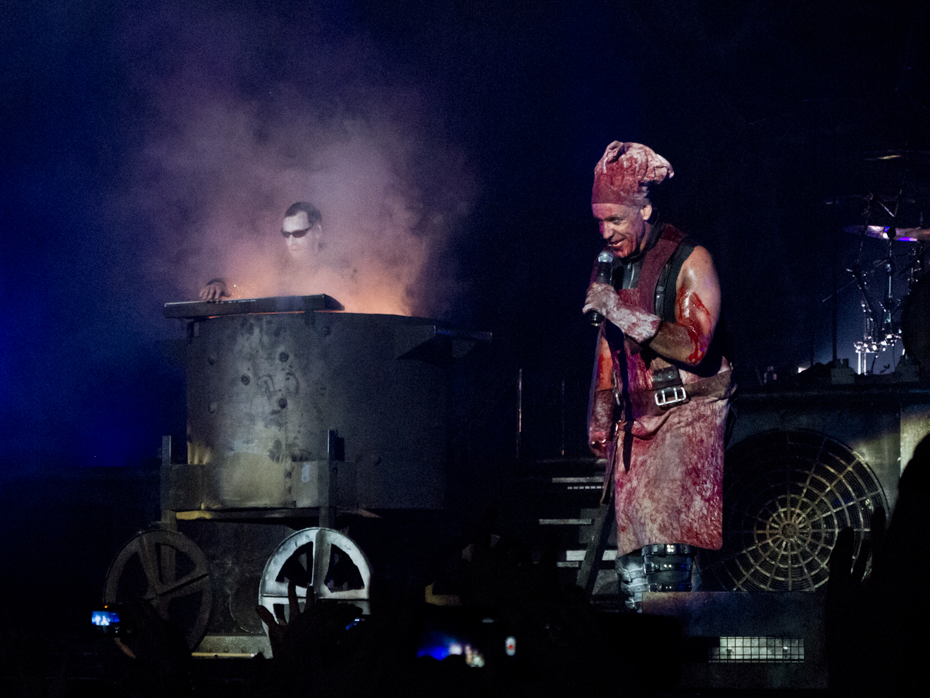 Rammstein in concert in Madrid, Spain.